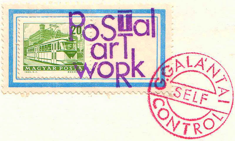 Mailartwork by György Galantai, Hungary